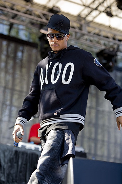 T.I. performing in Bumbershoot on August 31, 2008.